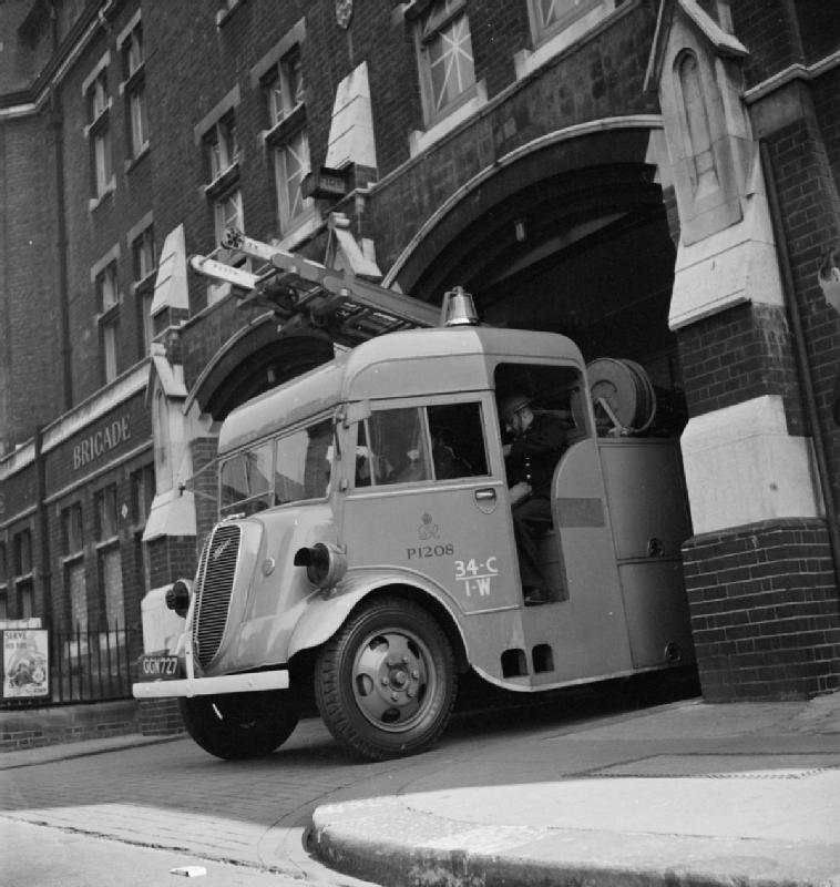 The Reconstruction of 'an Incident'- Civil Defence Training in Fulham, London, 1942 A fire engine leaves Fulham Fire Station on its way to the incident, elsewhere in the borough. The firemen put on their helmets and gas masks as they go. Fulham Fire Station is at 685 Fulham Road.